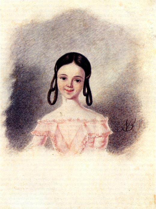 Sofia Muravyova, daughter of Decembrist Nikita Muravyov